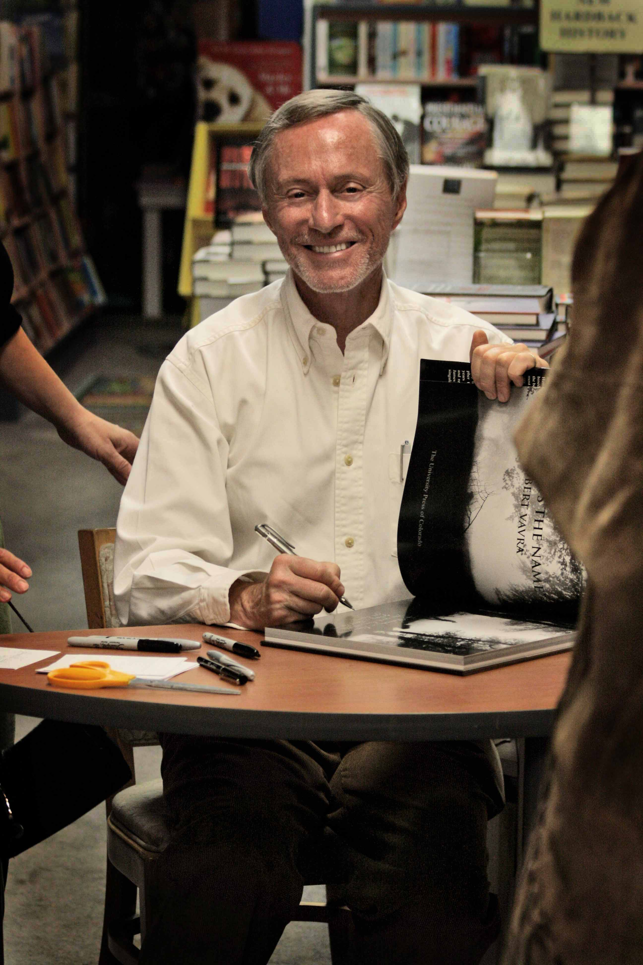 Robert Vavra at booksigning, June 2007 - Warwick's Book Store, La Jolla, CA